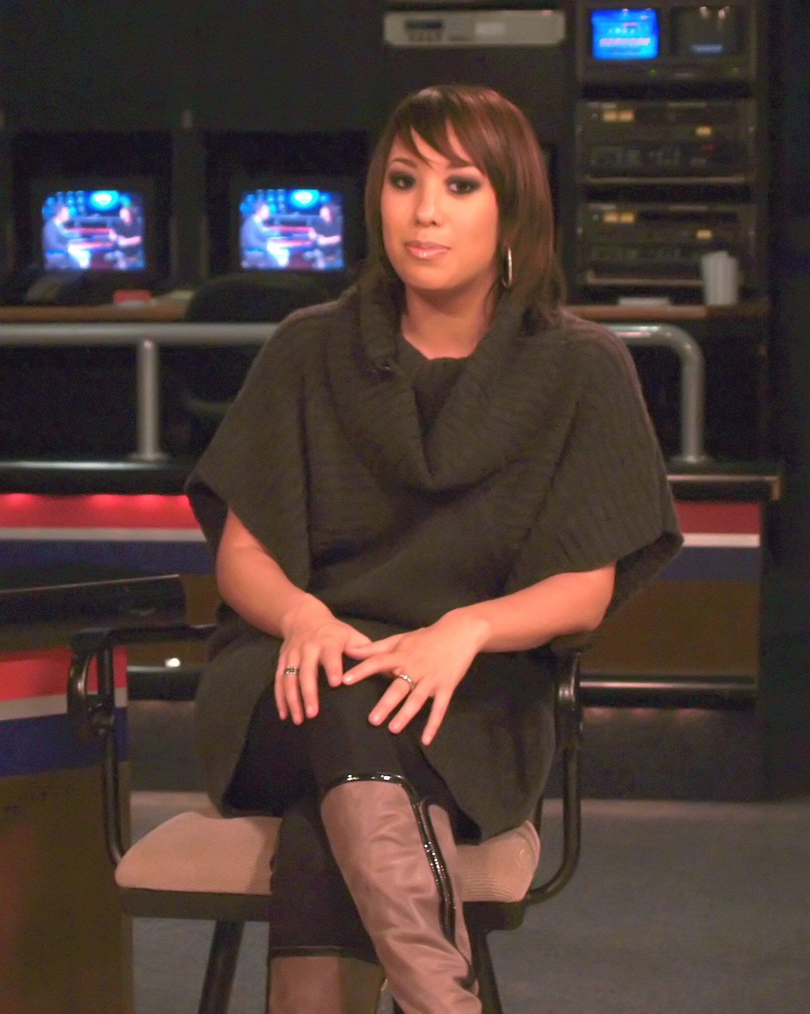 I personally took this photo of Cheryl Burke while she was in San Diego.